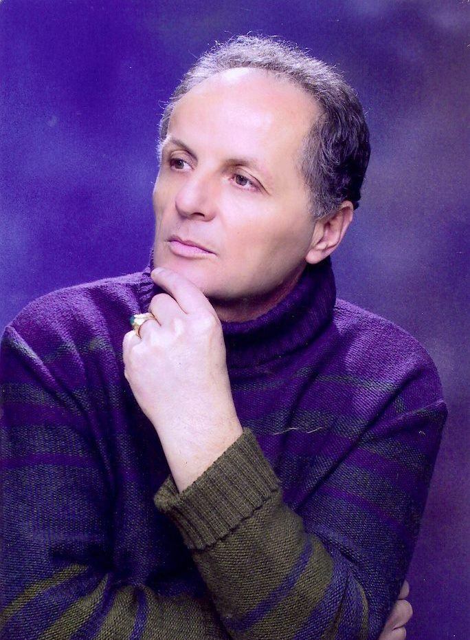 Наум Попески е македонски писател, поет за деца и публицист.